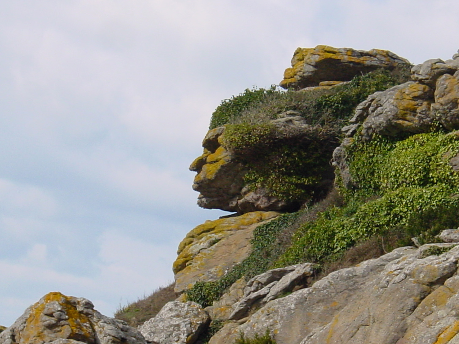 Pareidolia of an Indian face in a rock